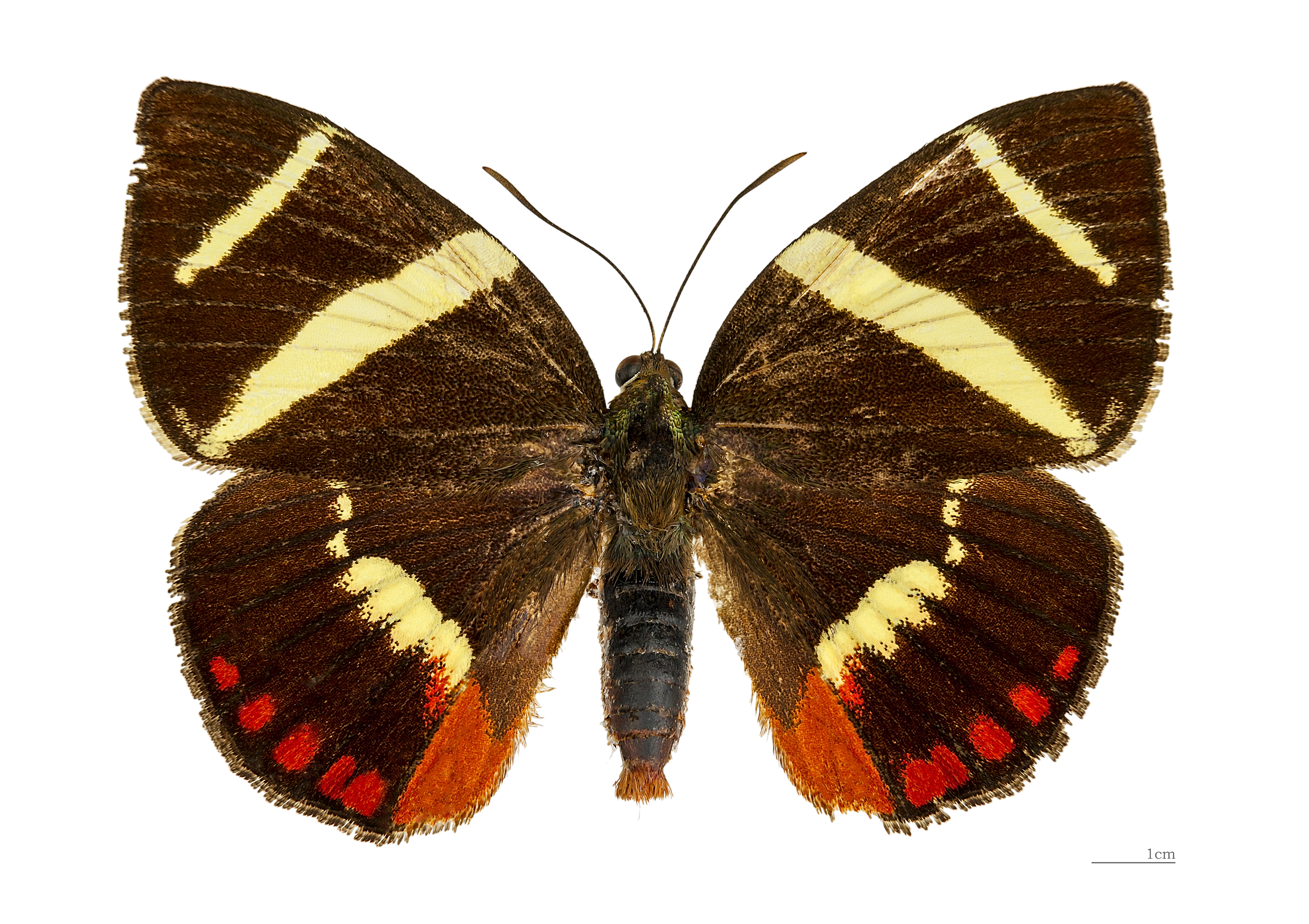 Xanthocastnia evalthe - Dorsal side